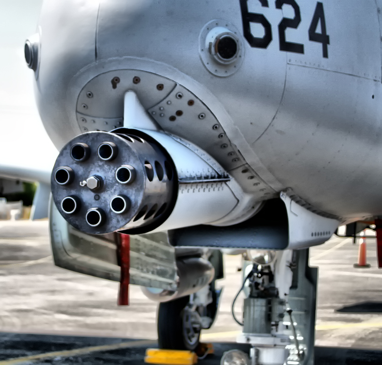 A-10 Thunderbolt II Canon, McChord AFB, Washington